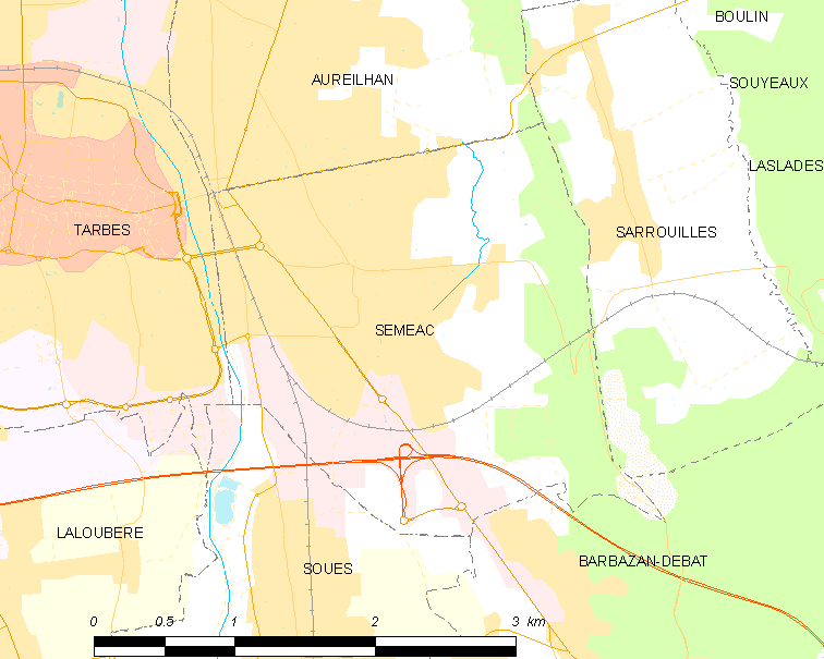 Map of French municipality